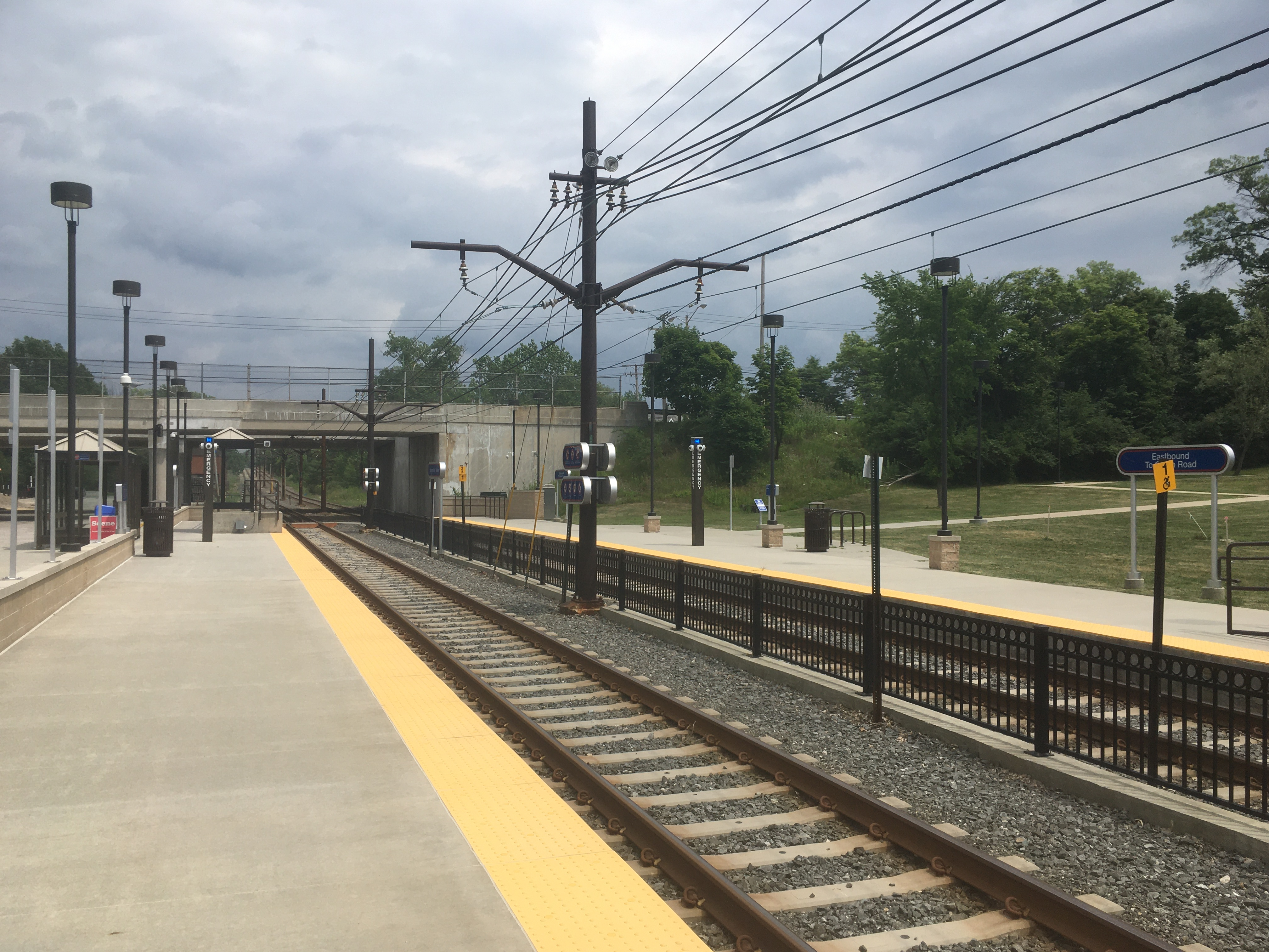 Warrensville-Shaker station